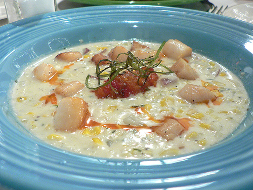 Nantucket bay scallops, potato-corn chowder, roasted red pepper relish, and crispy leeks.